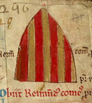 Inverted arms of Raimund, count of Provence referring to his death